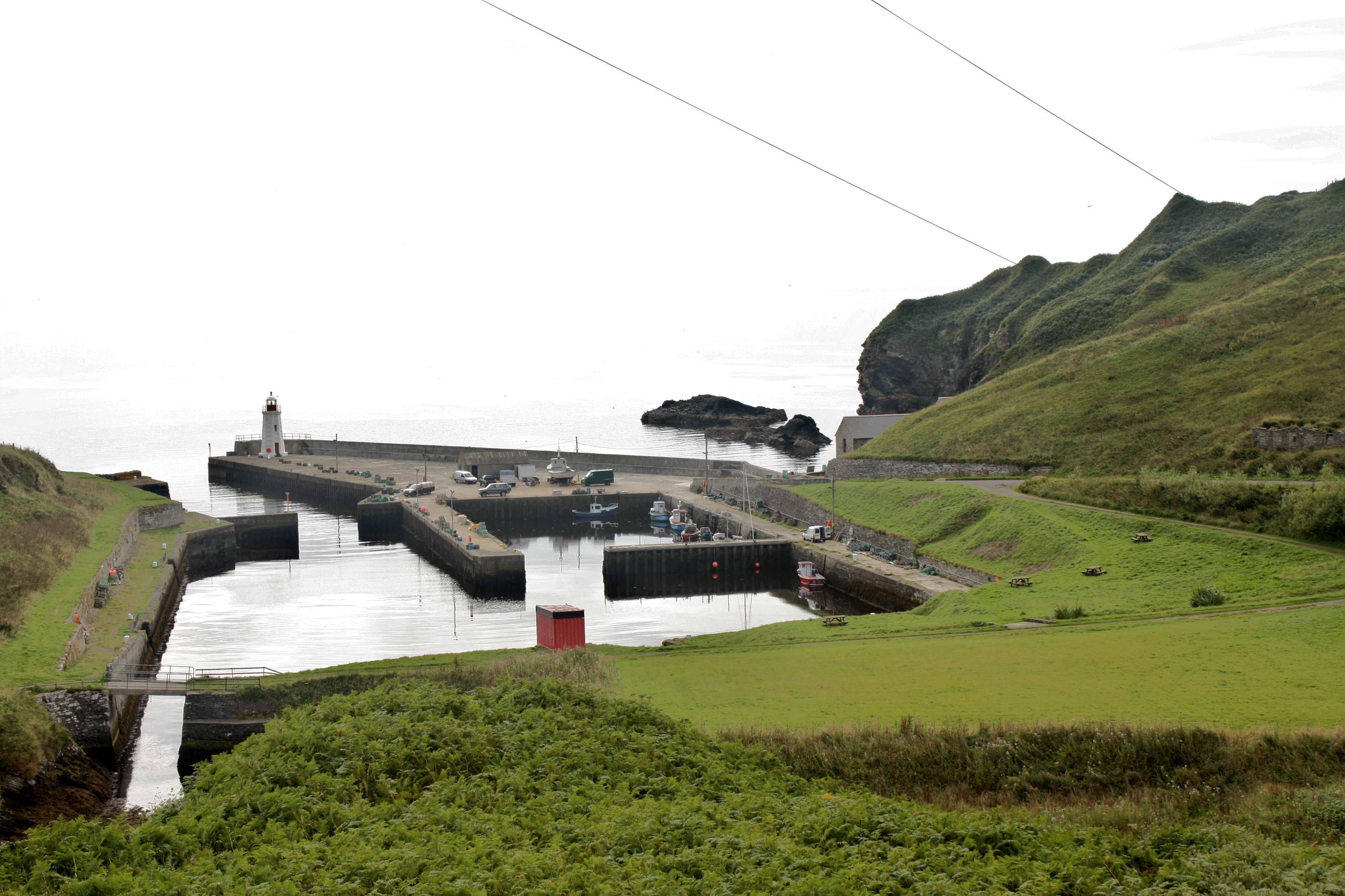 Lybster Harbour, Scotland.